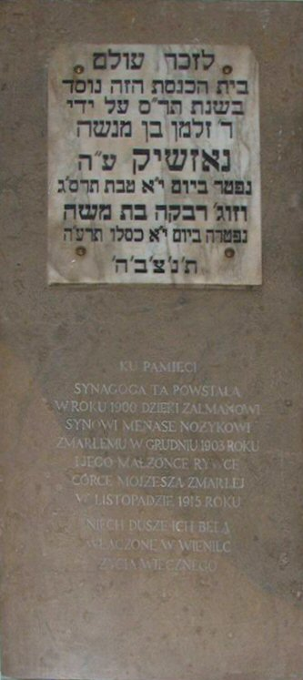 Trip to the Nozyk Synagogue